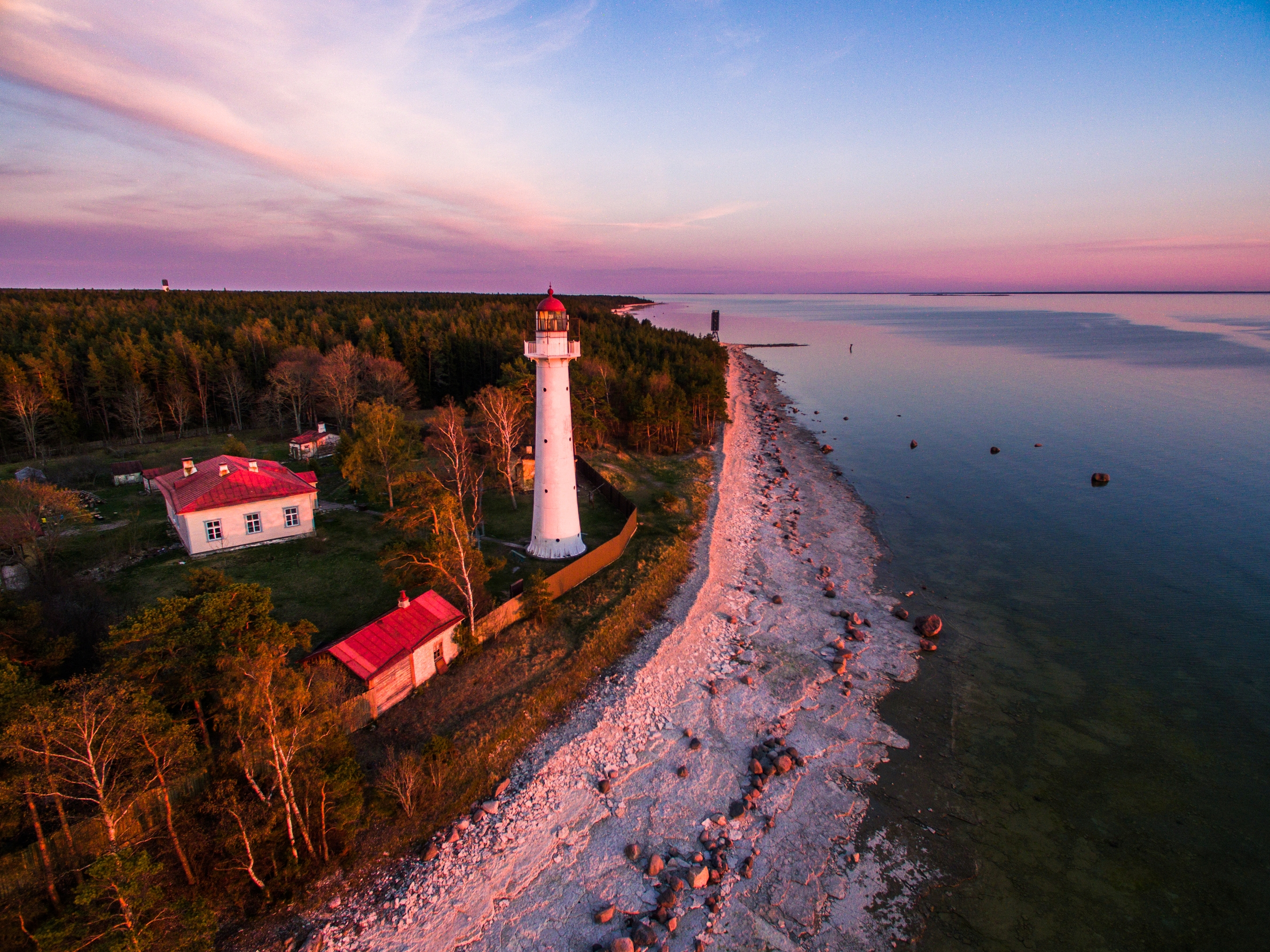 Coast and lighthouse in Saxby. Vormsi Landscape Reserve, Estonia